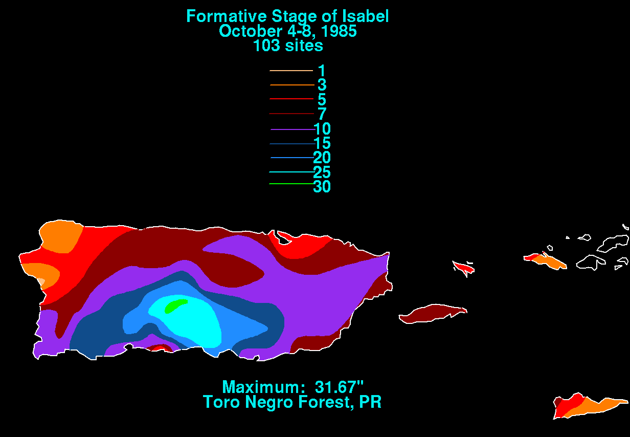 Storm total rainfall map of Tropical Storm Isabel (1985) in Puerto Rico during October 1985.